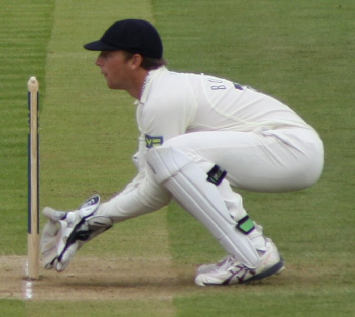 Jos Buttler keeping wicket during a County Championship match for Somerset against Essex at the County Ground, Taunton.